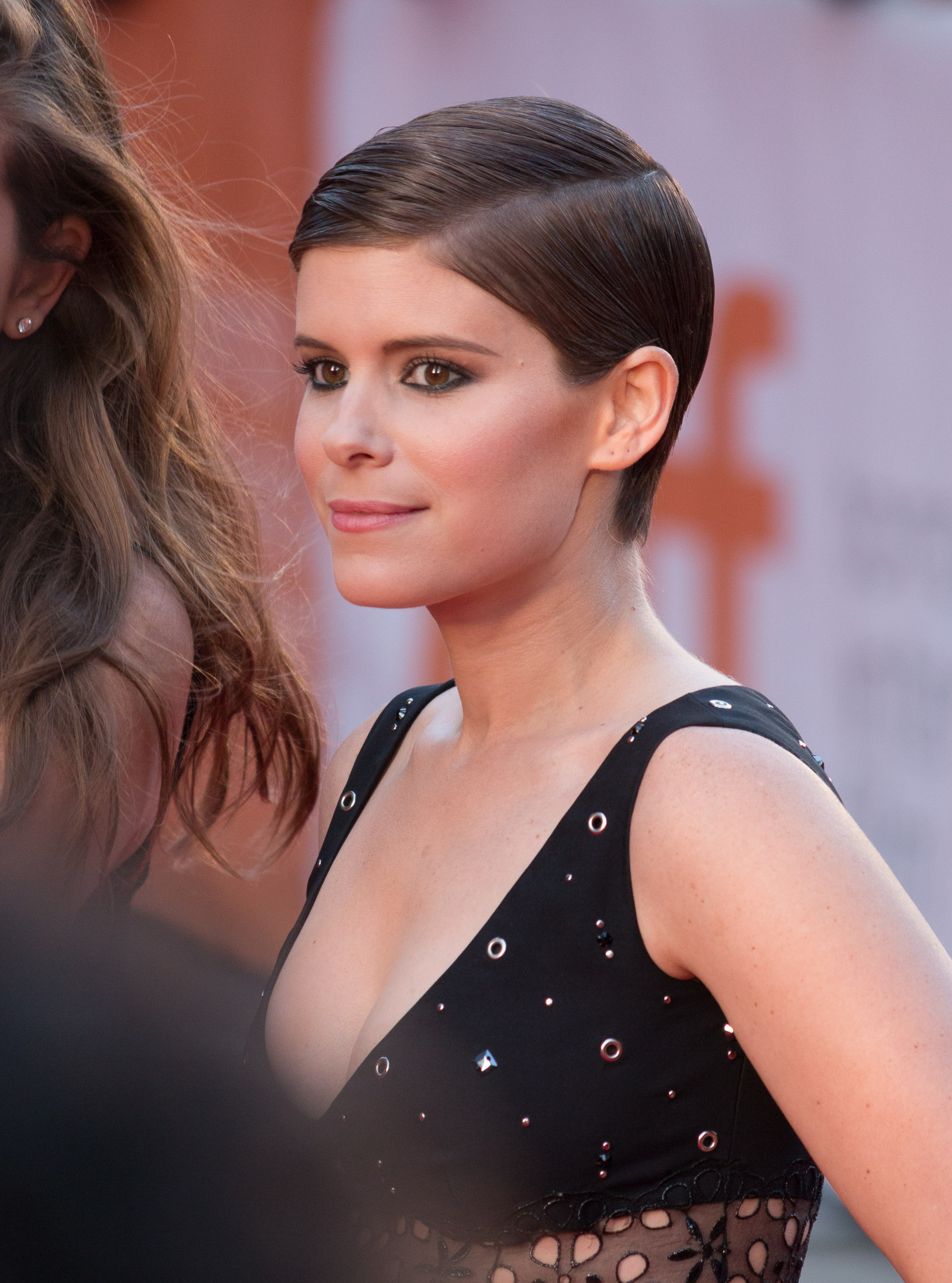 Kate Mara at the TIFF premiere of Man Down